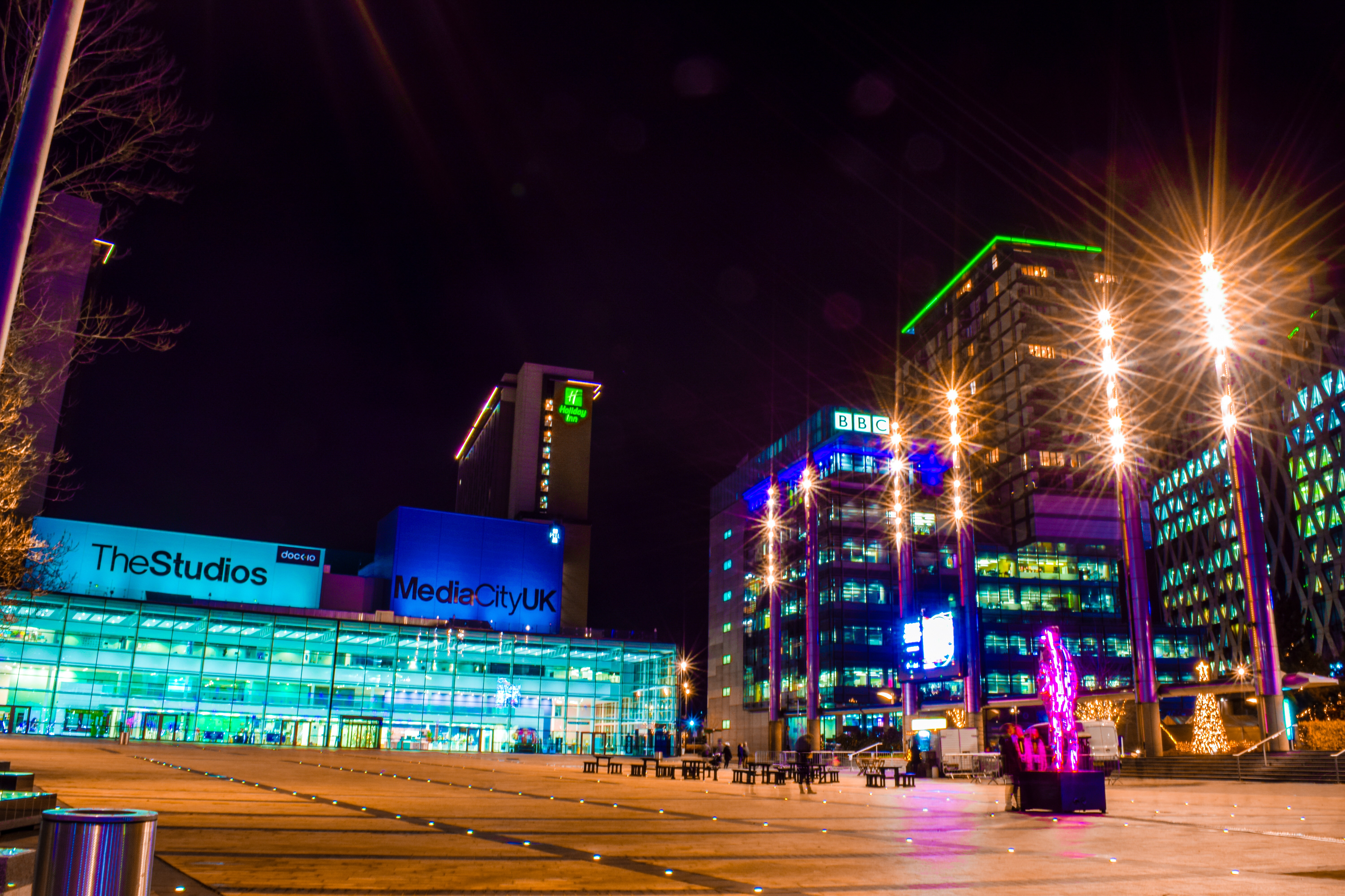 Image showing the MediaCityUK Piazza during the Lightwaves Festival 2018